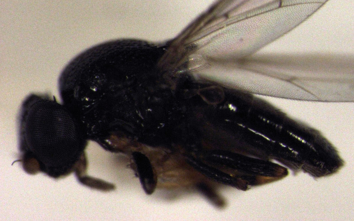 Siphunculina breviseta (lateral, note occiputal bristle)